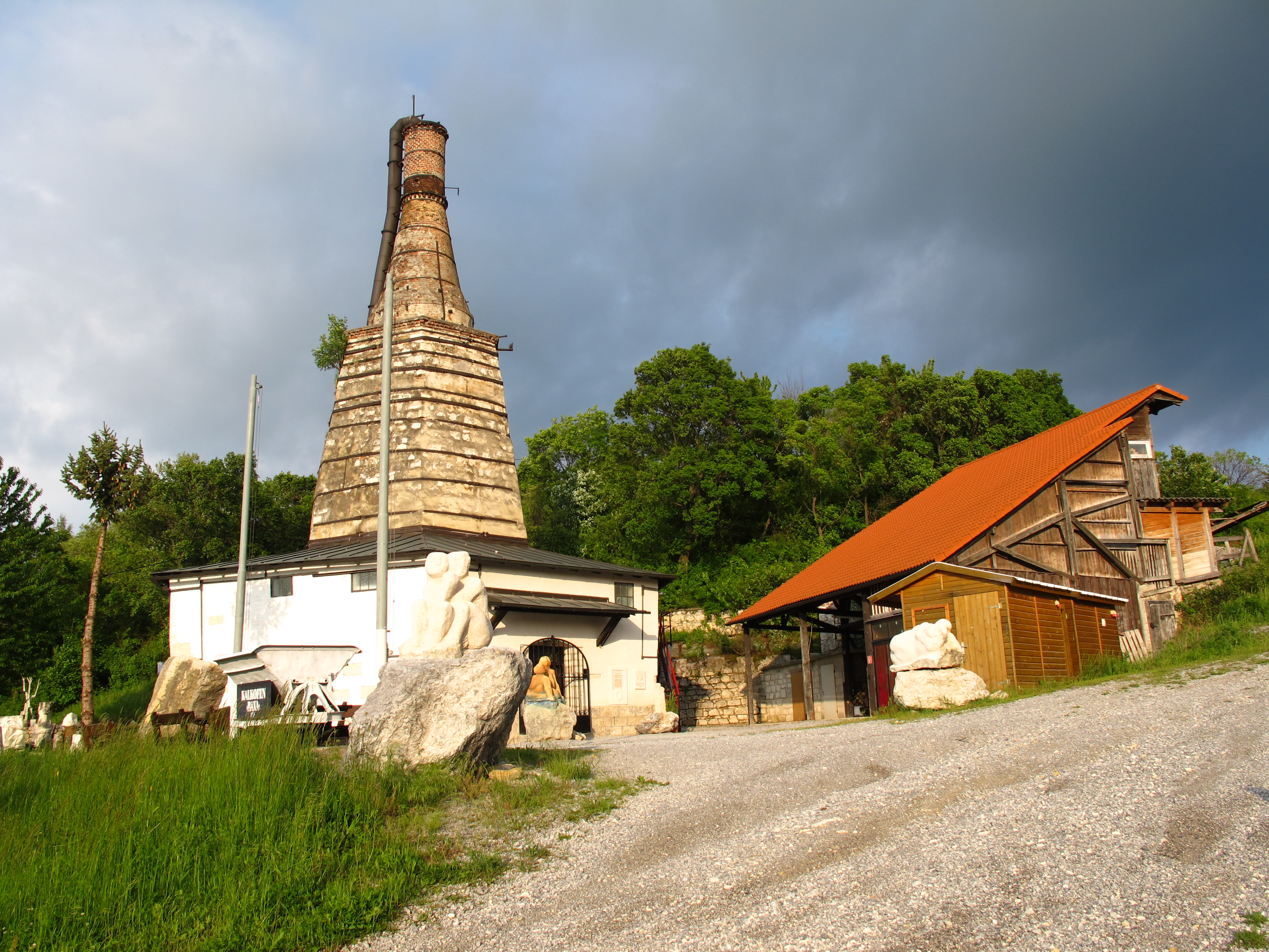 Kiln Baxa for burning limestone, built in 1893 near the village Mannersdorf am Leithagebirge / Lower Austria / Austria / EU. The furnace was renovated in 1996-1998, with the support of familie Hasslinger, the municipality Mannersdorf am Leithagebierge and active help of many volunteers. Around the building several stone sculptures are on display.